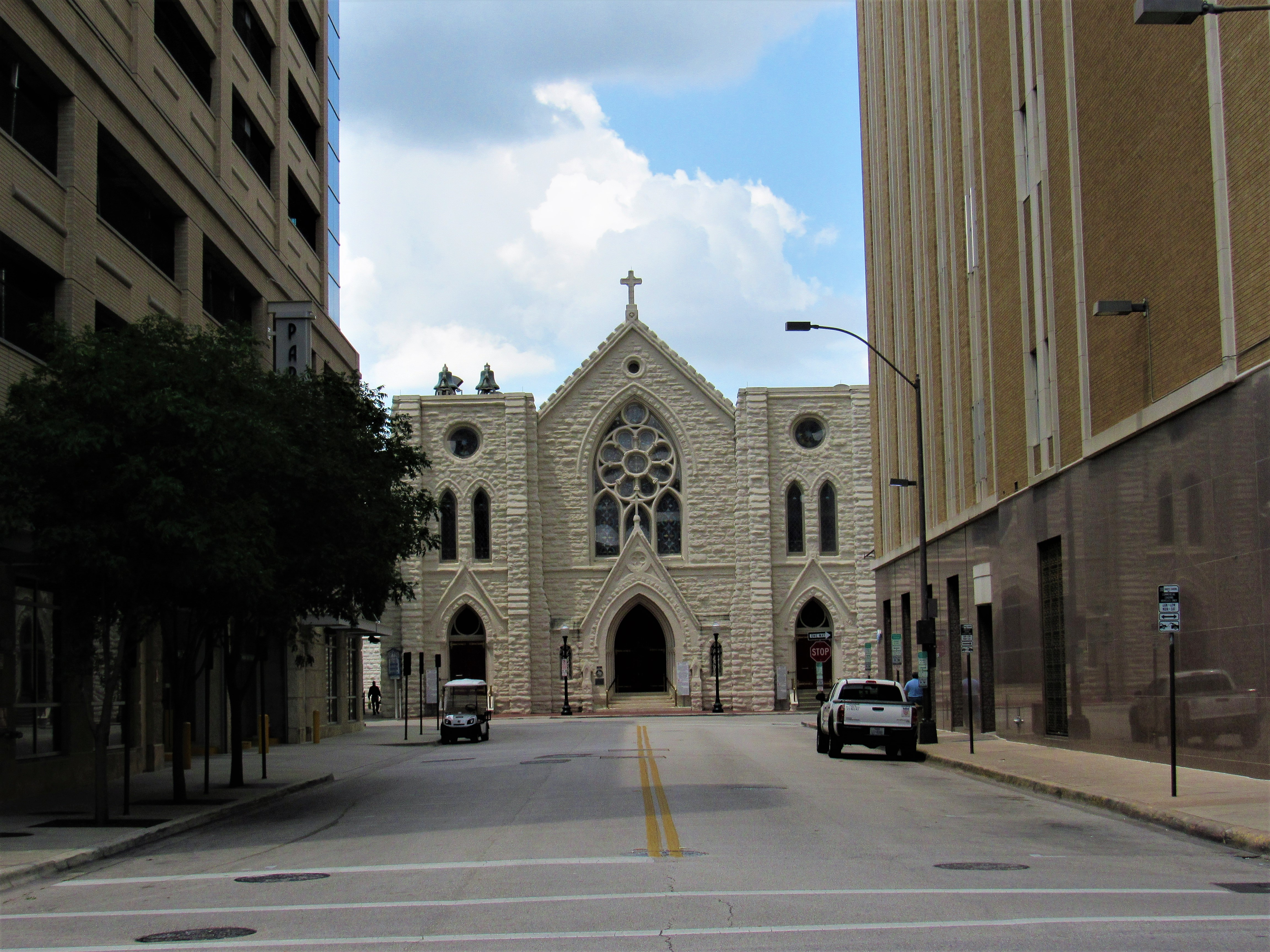 St. Patrick Cathedral in downtown Fort Worth, Texas.